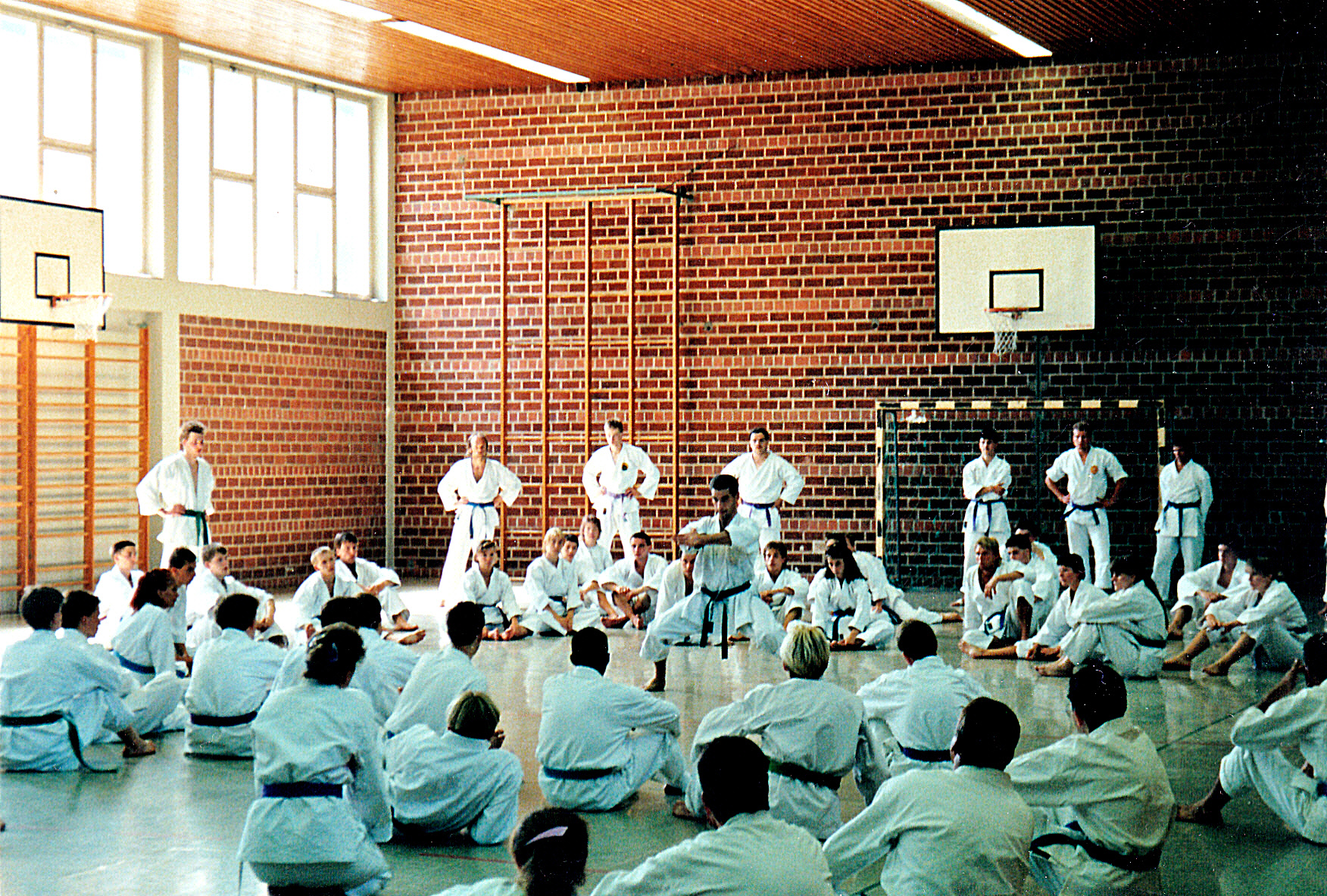 Kata with Carlo Fugazza (Vize-World Champion Kata)